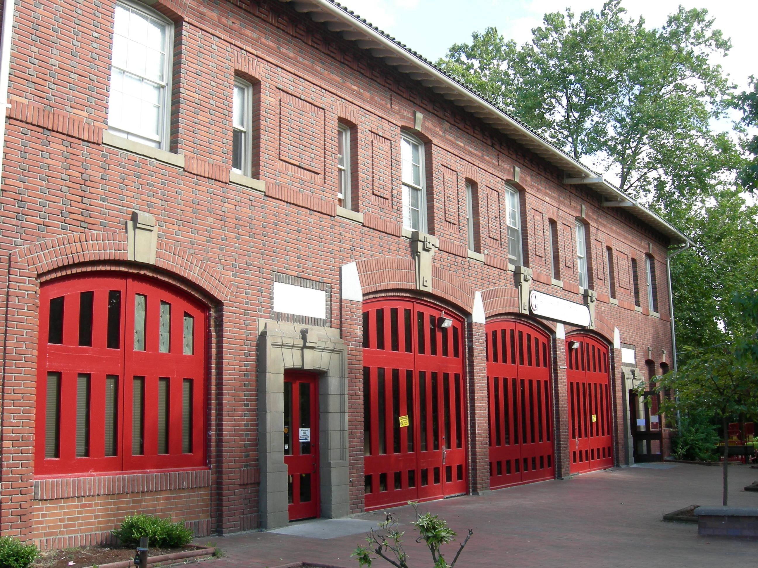 The "CAMP Firehouse": the former Firehouse No. 23, Seattle, Washington, headquarters of Seattle's Central Area Motivation Program. On the National Register of Historic Places.